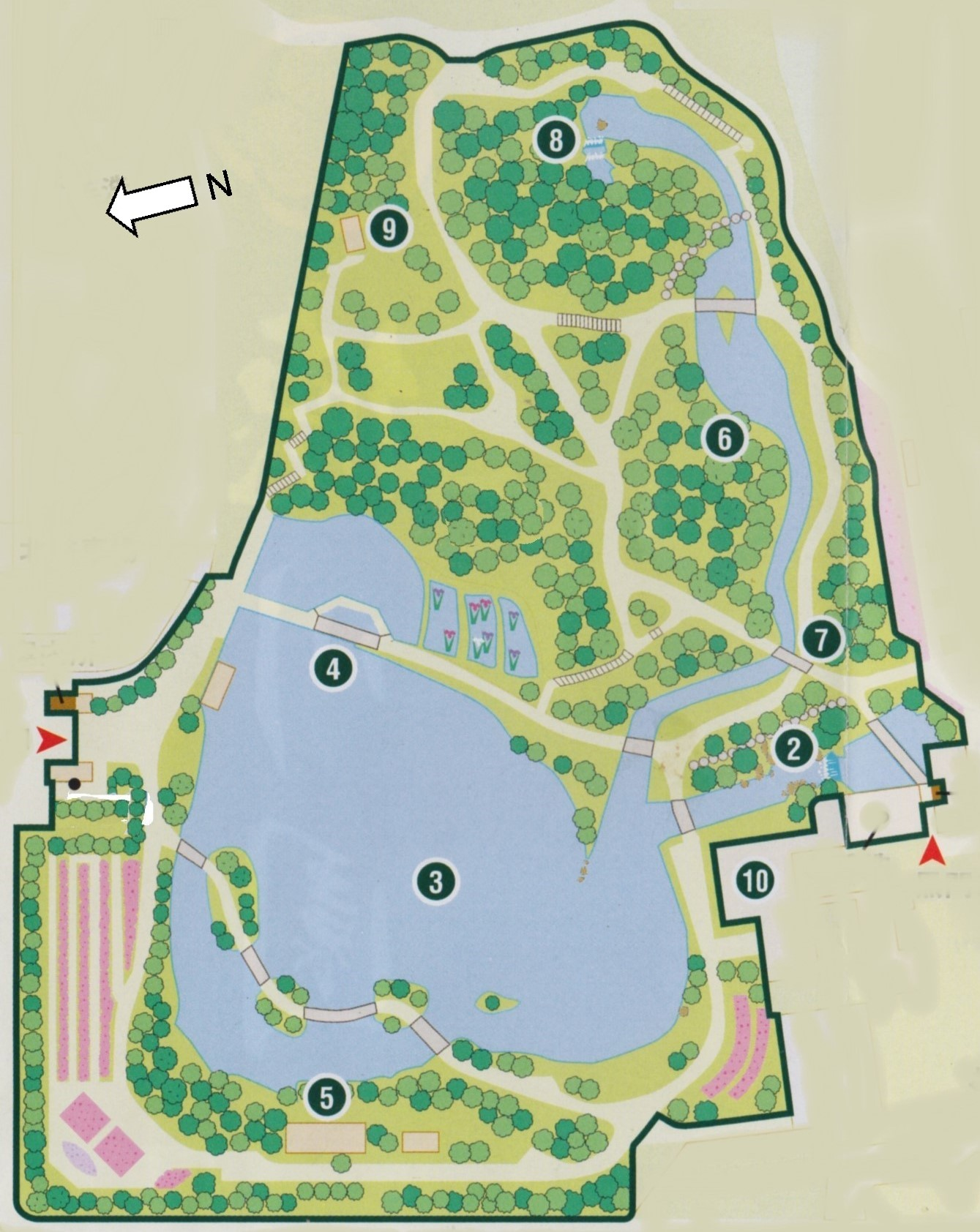 Tokugawa-en, layout